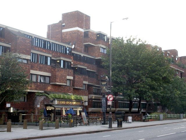 The Lord High Admiral, Vauxhall Bridge Road, SW1. The Lord High Admiral pub is on the ground floor of an extensive social housing complex on Vauxhall Bridge Road.